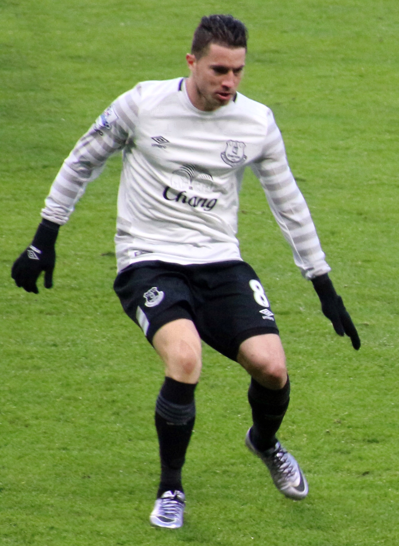 Bryan Oviedo (Everton) and Pedro (Chelsea) during a Premier League match